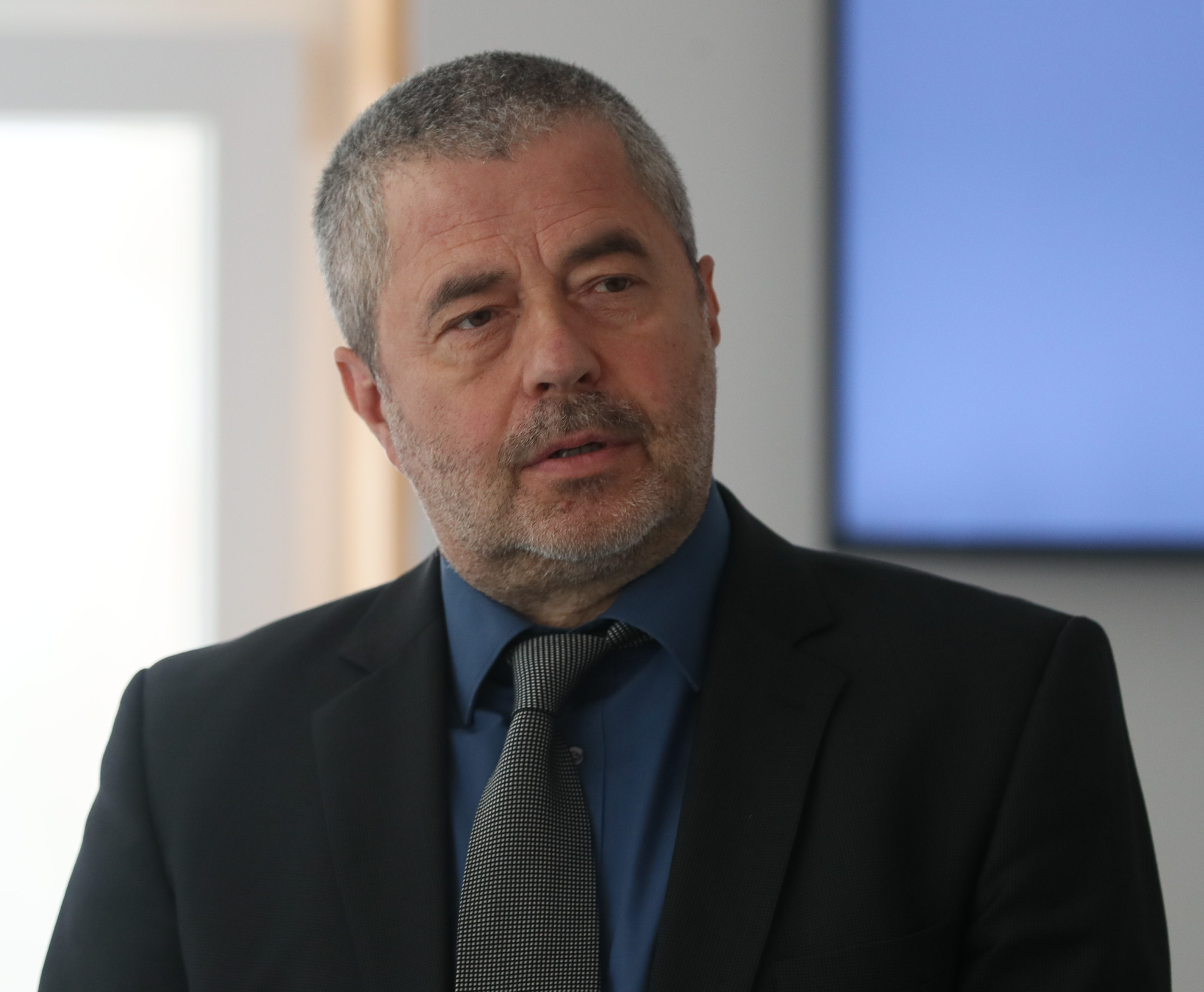 Press conference during the training week Bobsleigh and Skeleton 2018 in Altenberg